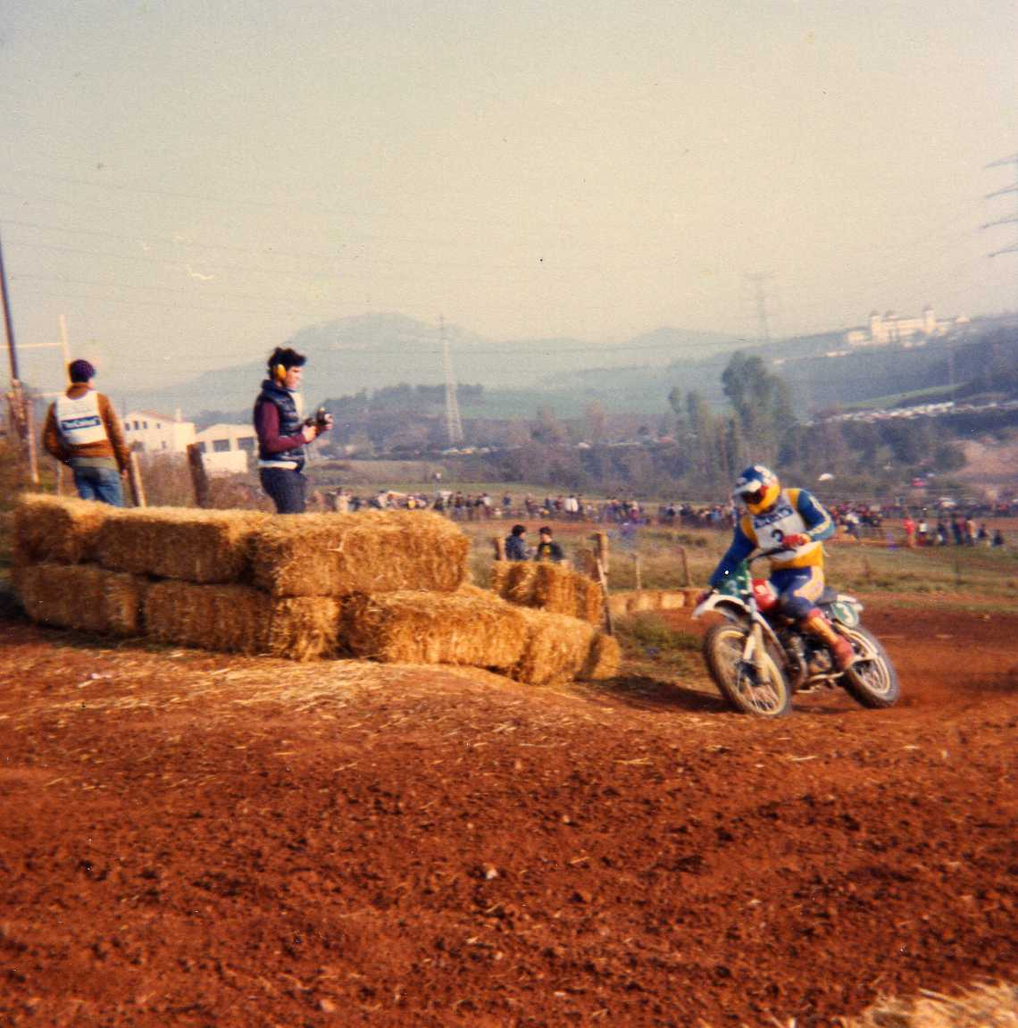 Dimitar Rangelov (Husqvarna) at Circuit del Vallès, Sabadell-Terrassa (Catalonia), during the 1981 spanish MX GP 250cc.